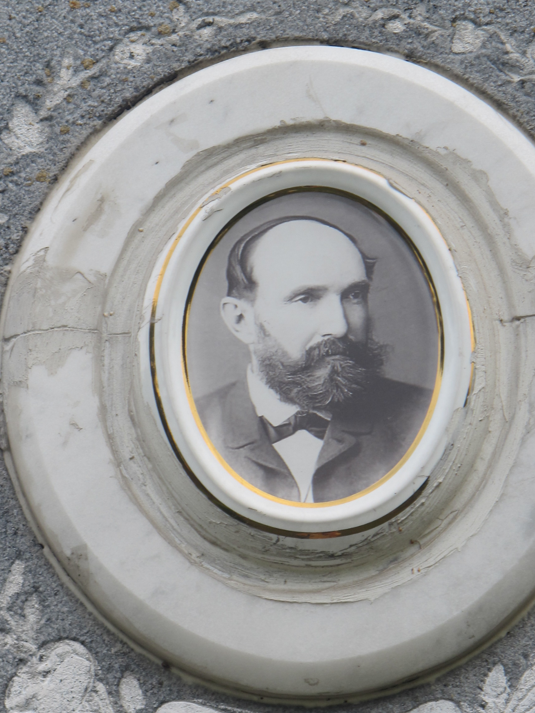 Czech Explorer Benedikt Roezl - Photo on his Grave in Panenský Týnec